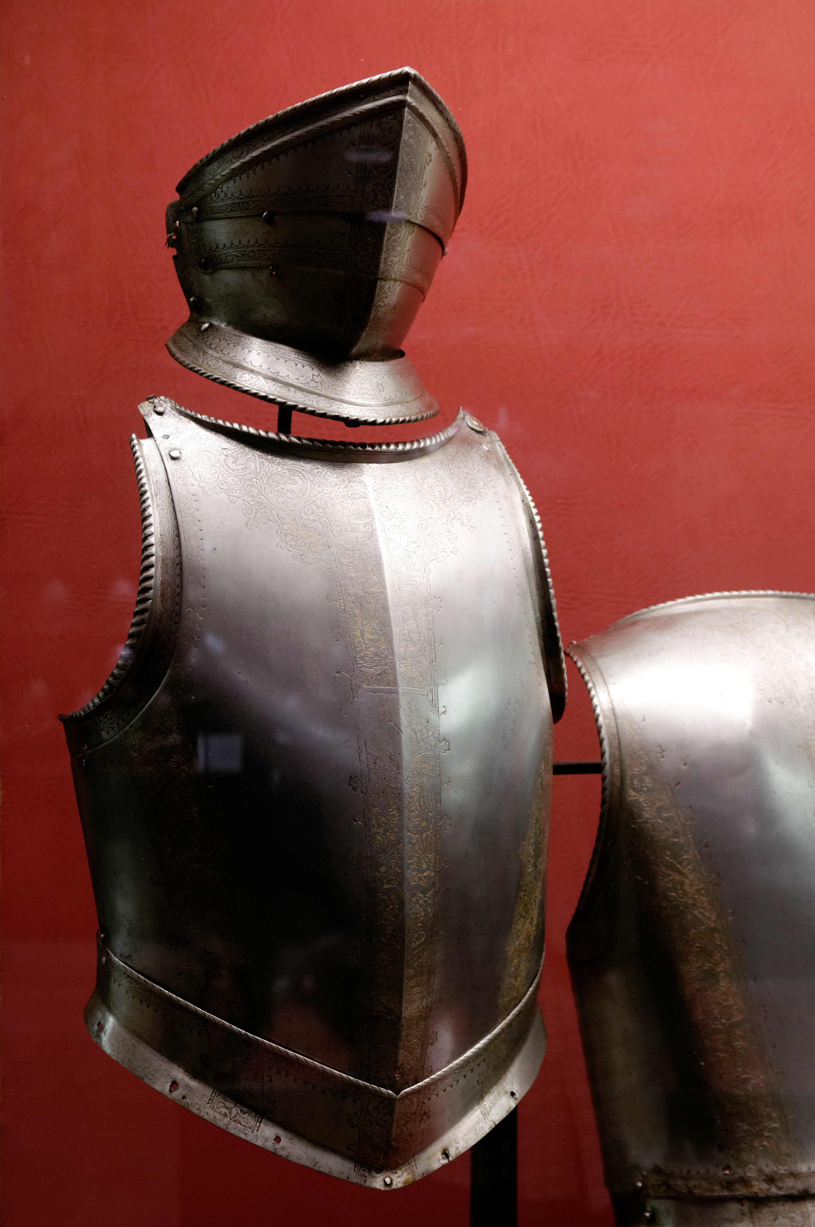 Armour of Italian make (ca 1560) worn by grand master Jean Parisot de Valette: back and breastplate with a buffe. Palace Armoury in Valletta, Malta.